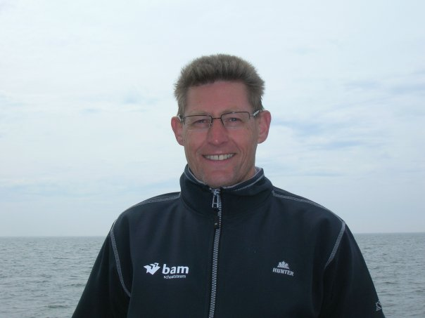 Picture of J. Anema